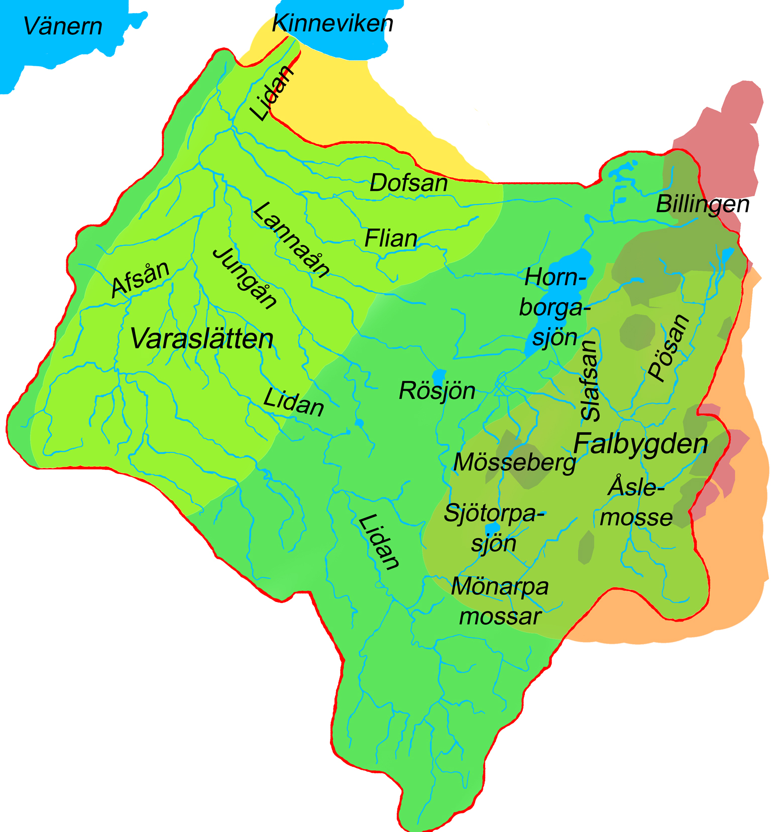 Map of drainage area of the river Lidan in Västergötland, Sweden. Scale circa 1:160,000. The drainage area is mostly within the former Skaraborg's County. The river and its tributaries and lakes are marked blue. The drainage area is green with a red border. In the western part of the drainage area, "Varaslätten" (i.e. "The Vara plain") is marked in yellow hue (light green within the drainage area, yellow outside). In the eastern part of the drainage area, the Falbygden area is marked in orange hue (mossgreen within the drainage area, orange outside). The table-mountains of Västergötland is surrounding the Falbygden area and are marked in dark red hue (olive green within the drainage area, dark red outside). The names are given for Lidan and its tributaries Flian, Dofsan, Slafsan, Pösan, Lannaån, Jungån, and Afsån. The names are also given for the lakes Hornborgasjön, Rösjön, and Sjötorpasjön, and also the recipient Kinneviken (a part of lake Vänern). Two bogs within the drainage area are named: Mönarpa mossar and Åsle mosse. The table mountains Billingen and Mösseberg are also named.